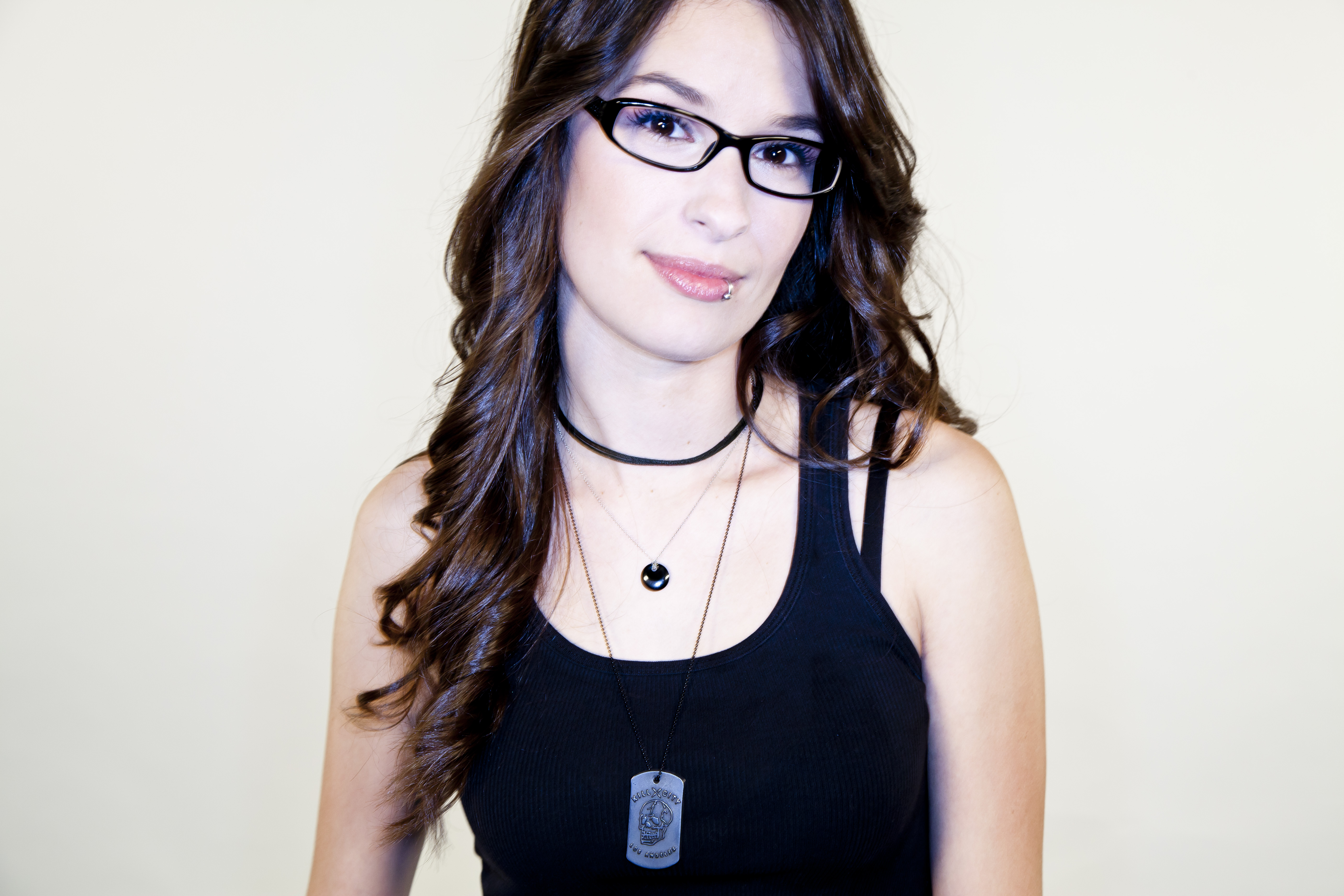 Cara Santa Maria is an American science communicator, writer, producer and television personality.